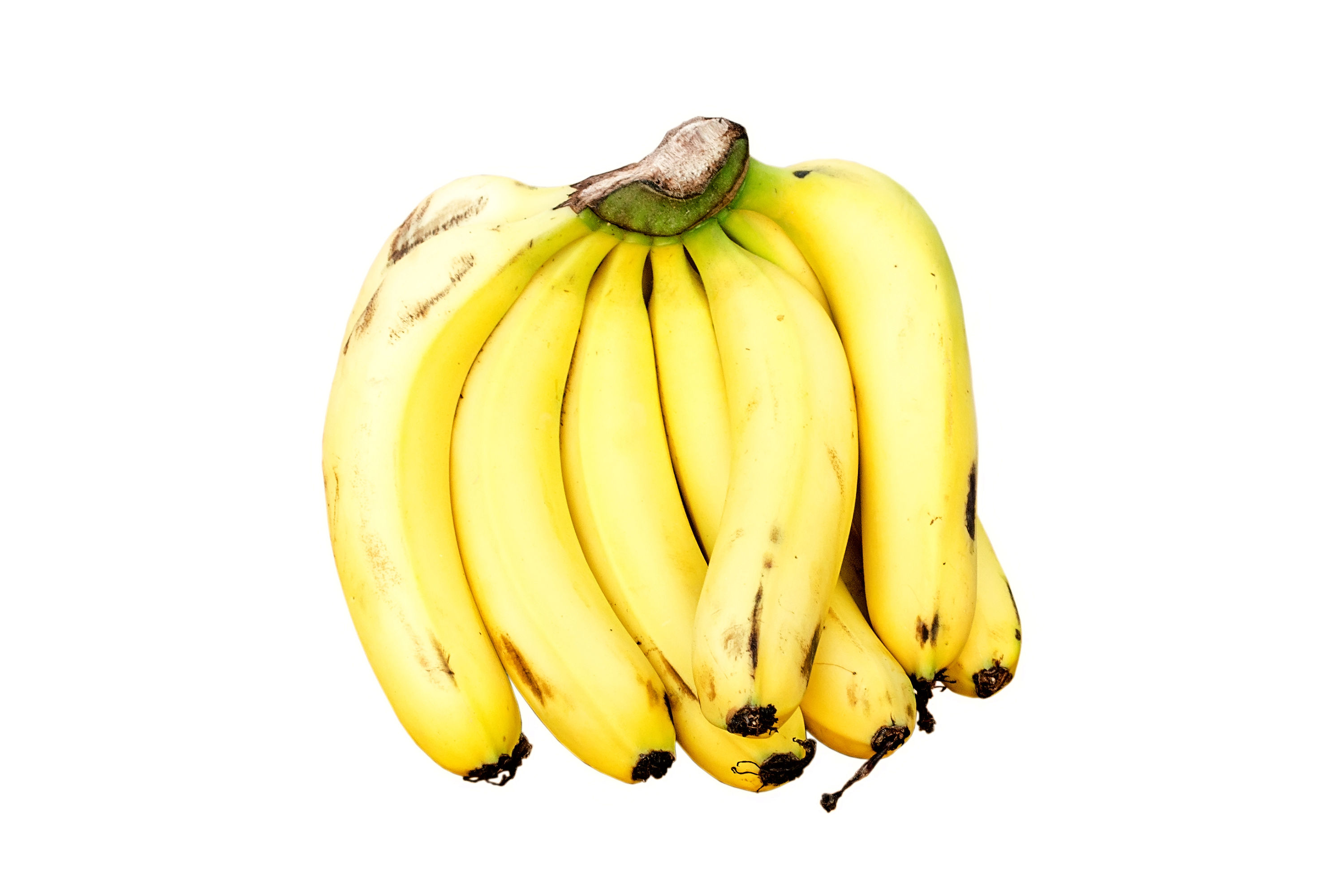 Cavendish bananas